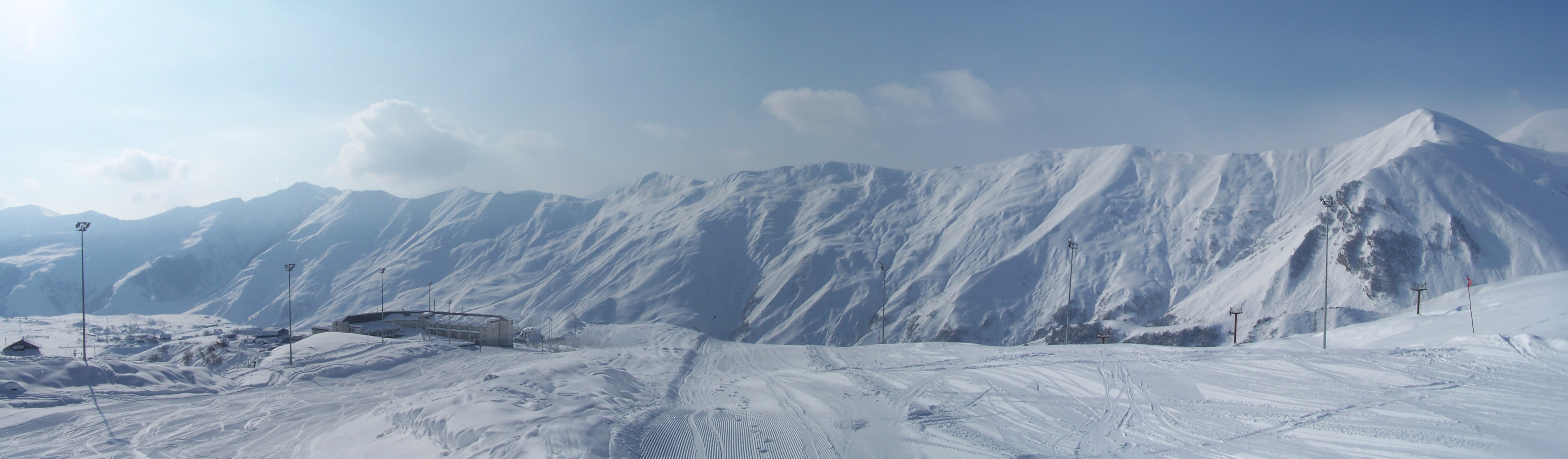 Gudauri